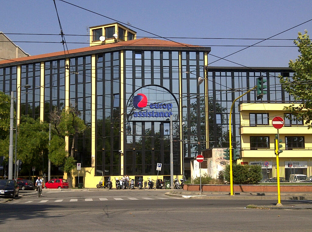 La sede di Europ Assistance a Milano